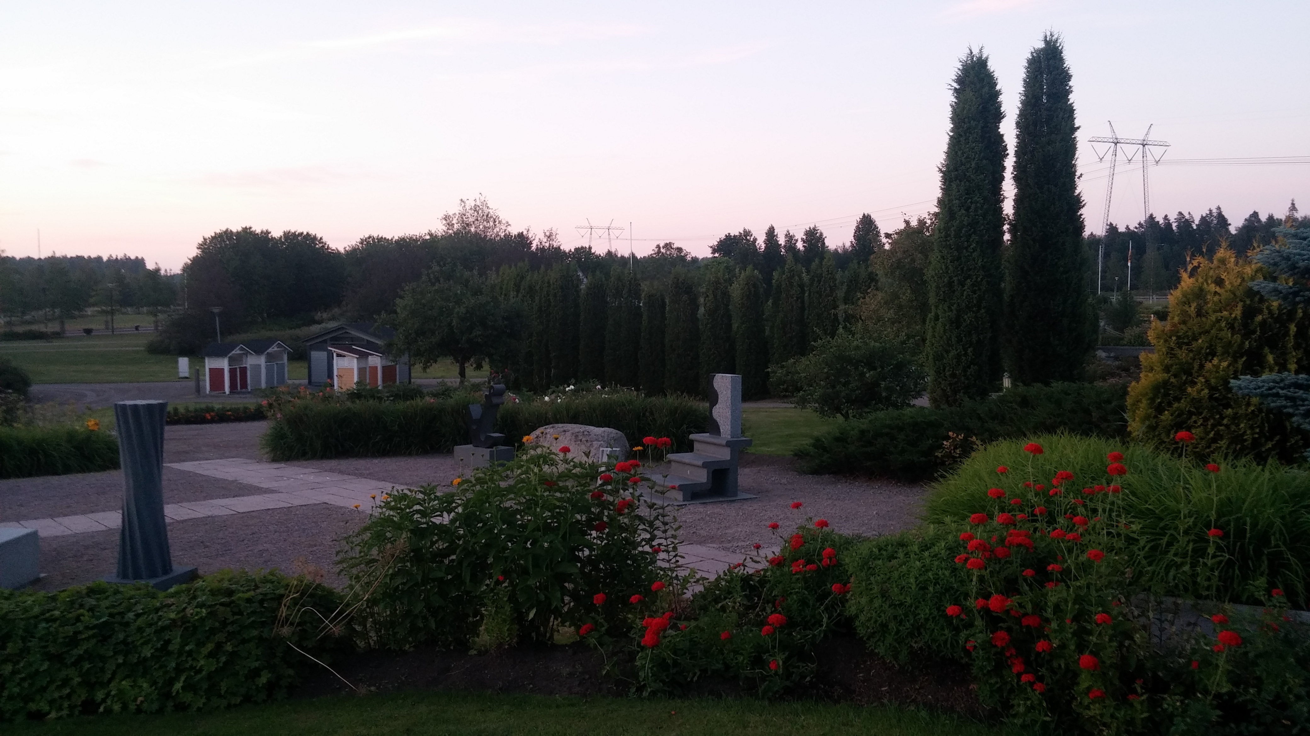 Marketanpuisto is a park in Espoo, Finland.